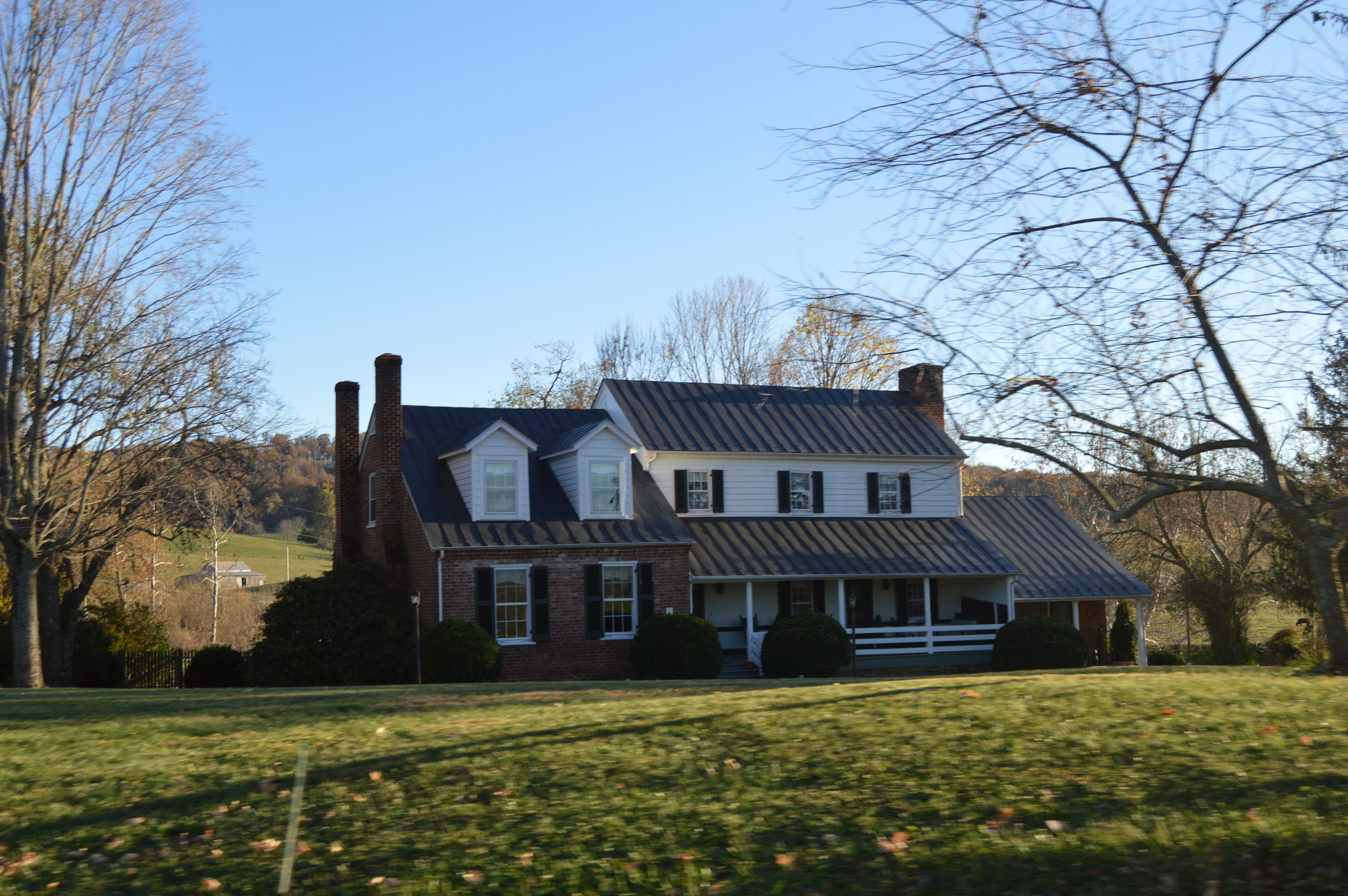 Front of Mulberry Grove, located on Sterrett Road southeast of Brownsburg in Rockbridge County, Virginia, United States. Built in 1790, it is listed on the National Register of Historic Places.